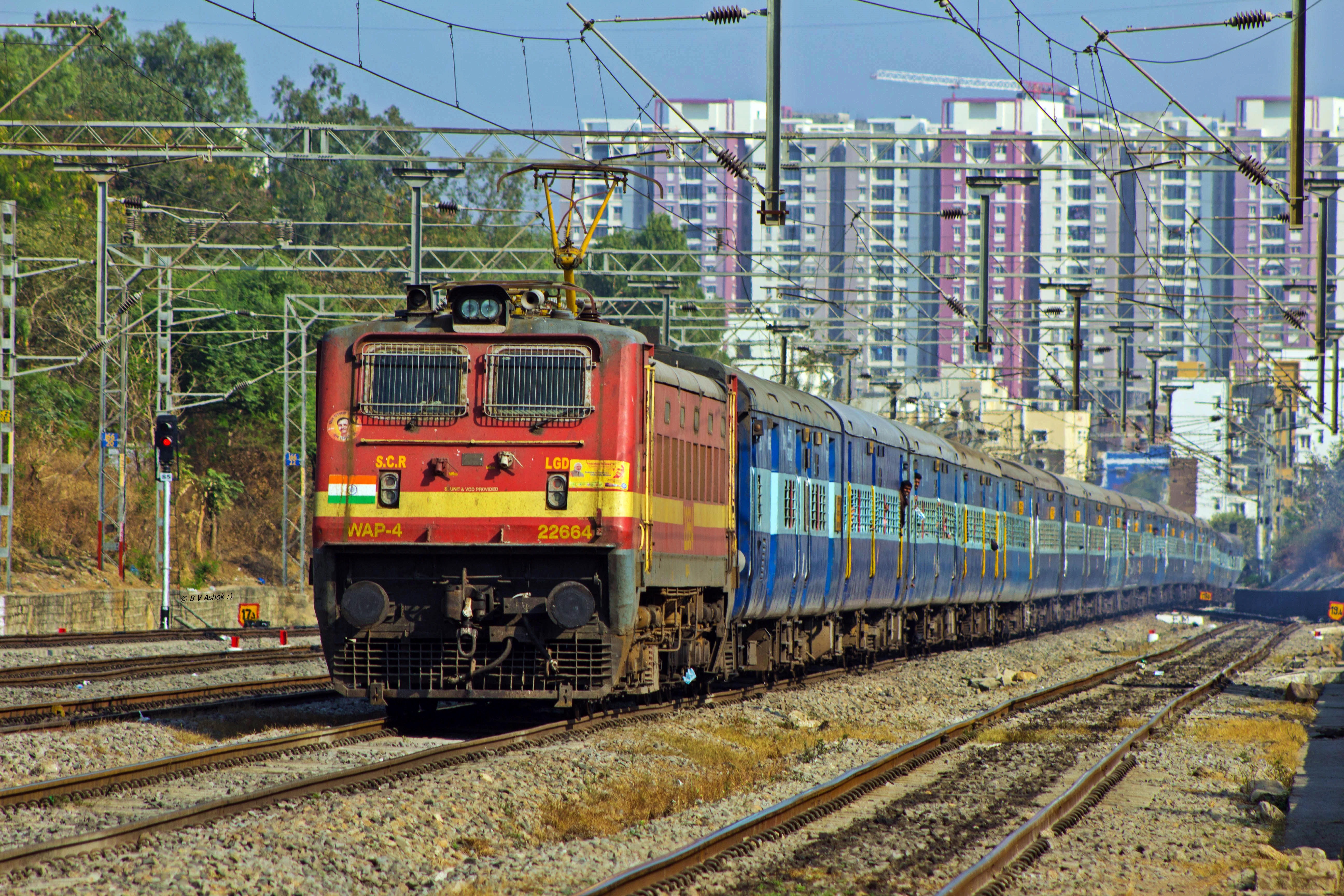 LGD WAP-4 22664 climbing up on the gradient to skip Hafizpet with 18519 Visakhapatnam - Mumbai LTT Express....